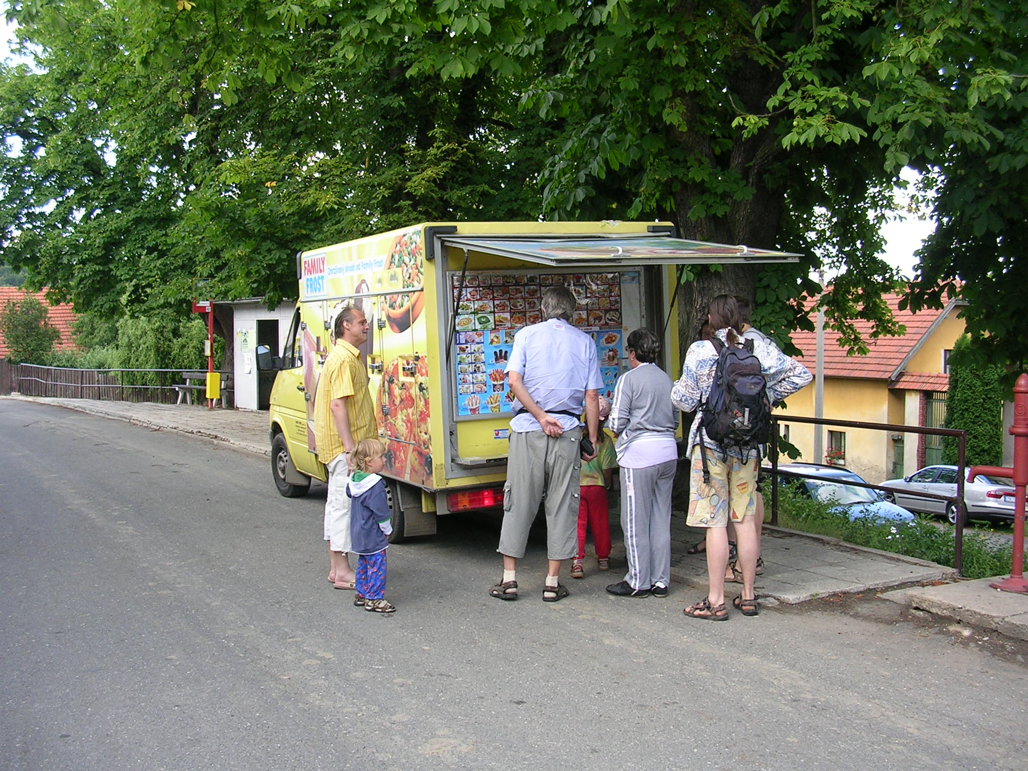 Černé Voděrady, Central Bohemian Region, the Czech Republic.